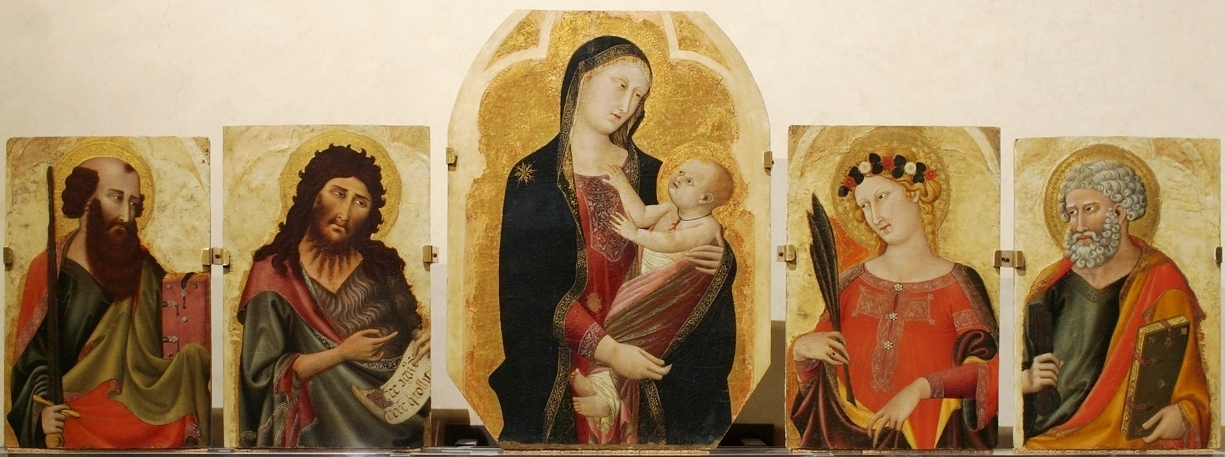 Francesco Traini or Giovanni di Nicola da Pisa, Polyptych Zucchetti, mid of 14th century, Museo Nazionale di San Matteo, Pisa